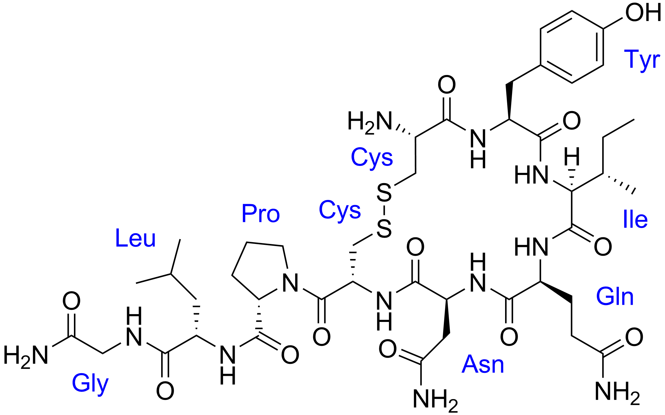 chemical structure of oxytocin with labeled amino acids